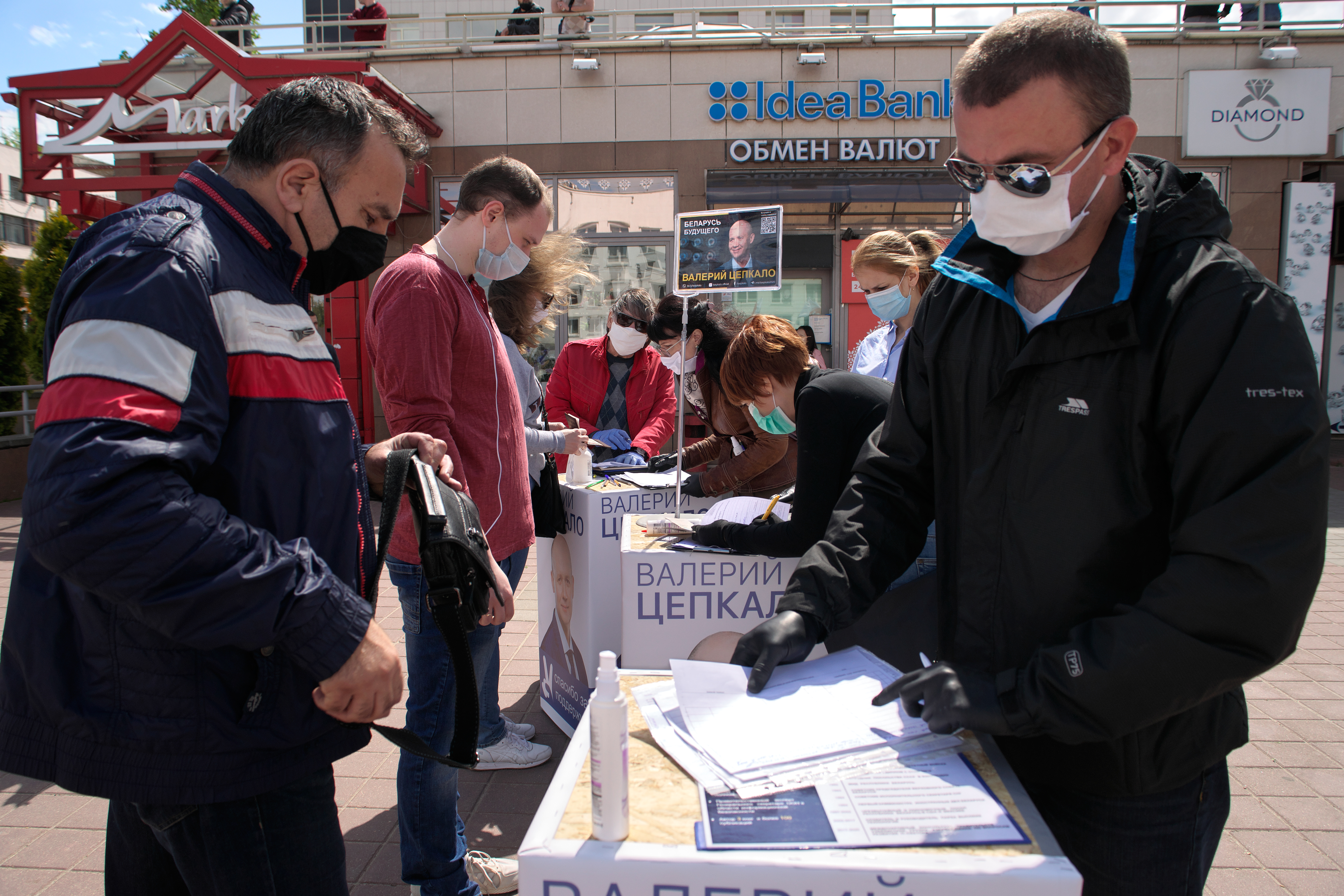 Signature collection for nominating candidates for the 2020 presidential election in Belarus during a pandemic COVID-19